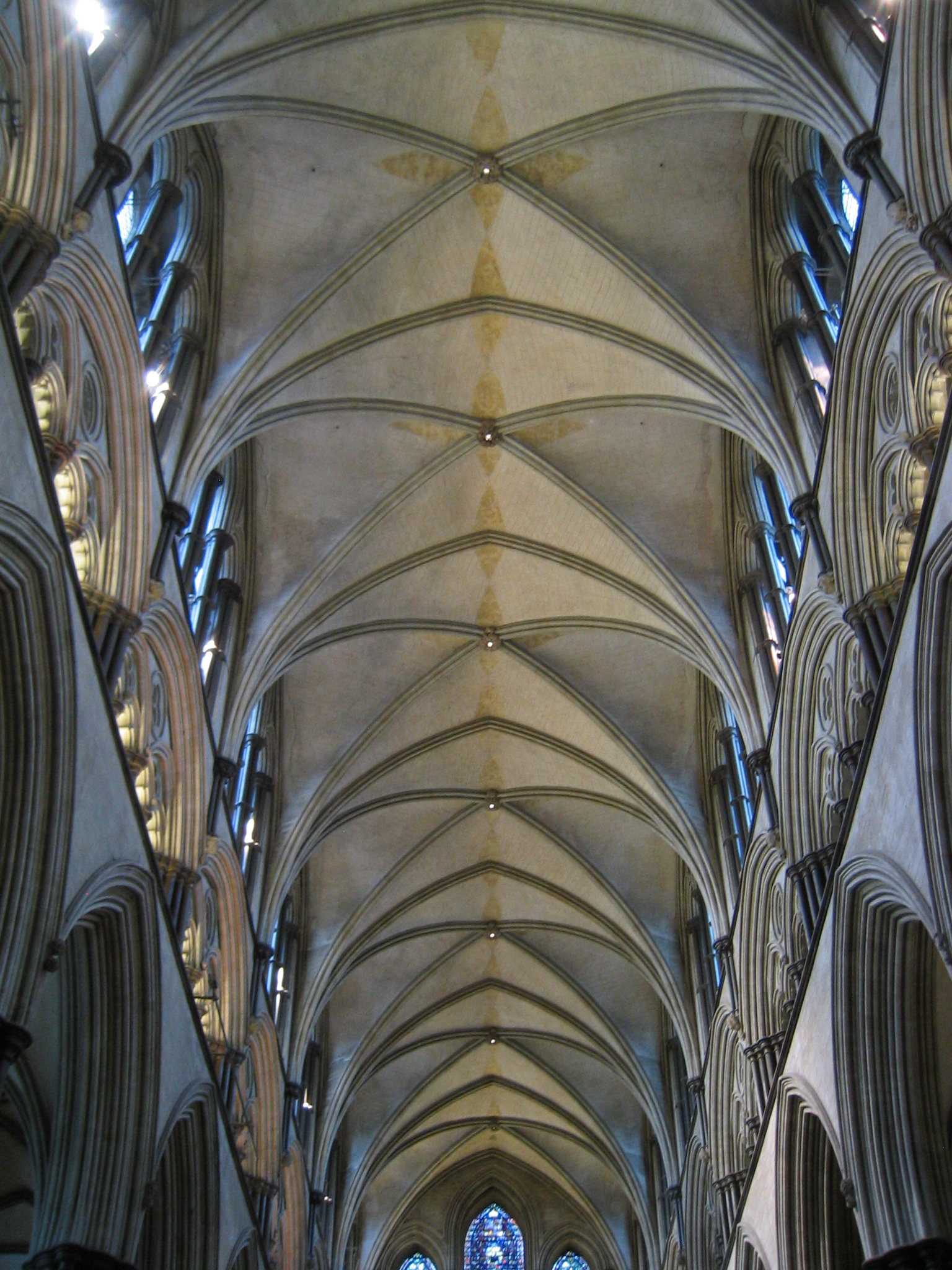 Salisbury Cathedral: rib-vaulting of nave clerestory.